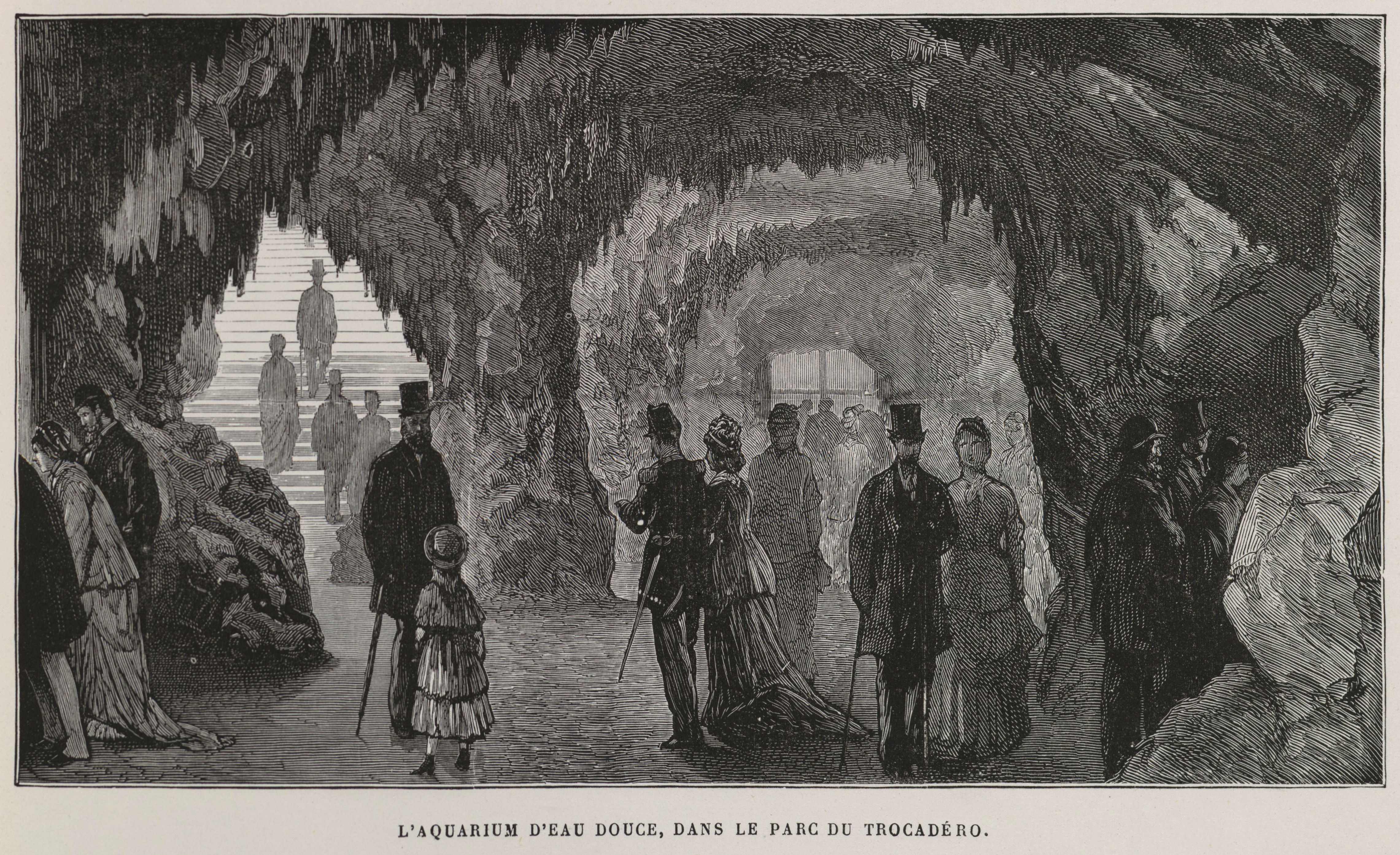 Aquarium in the Trocadéro park. The inside of the aquarium was made to mimick the stone of natural caves.